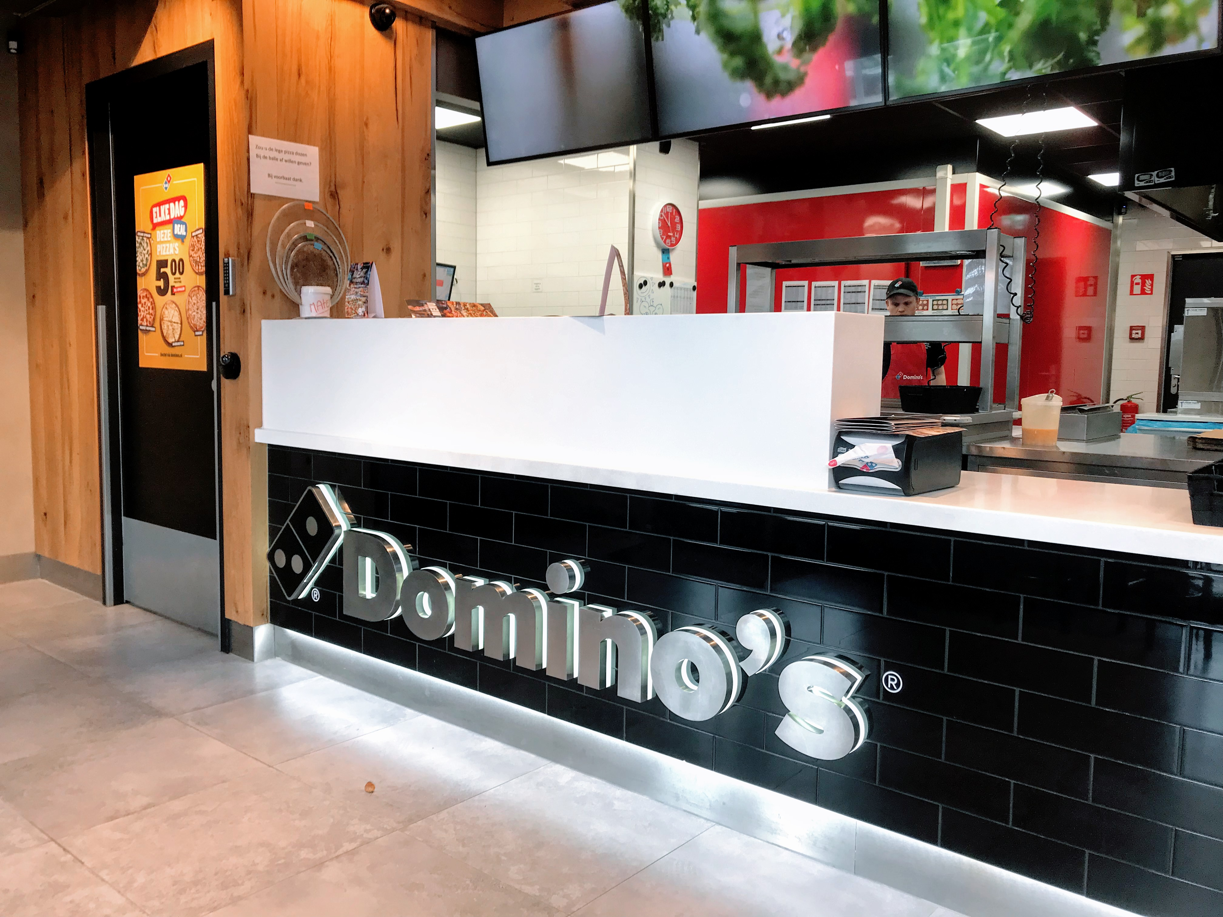 Dominos Pizza store interior Nieuw-Vennep